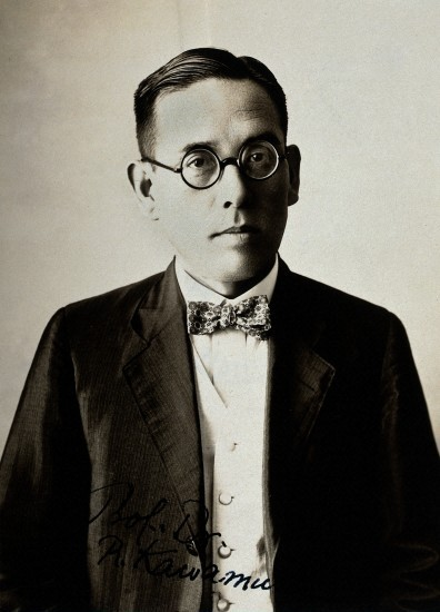 Rinya Kawamura